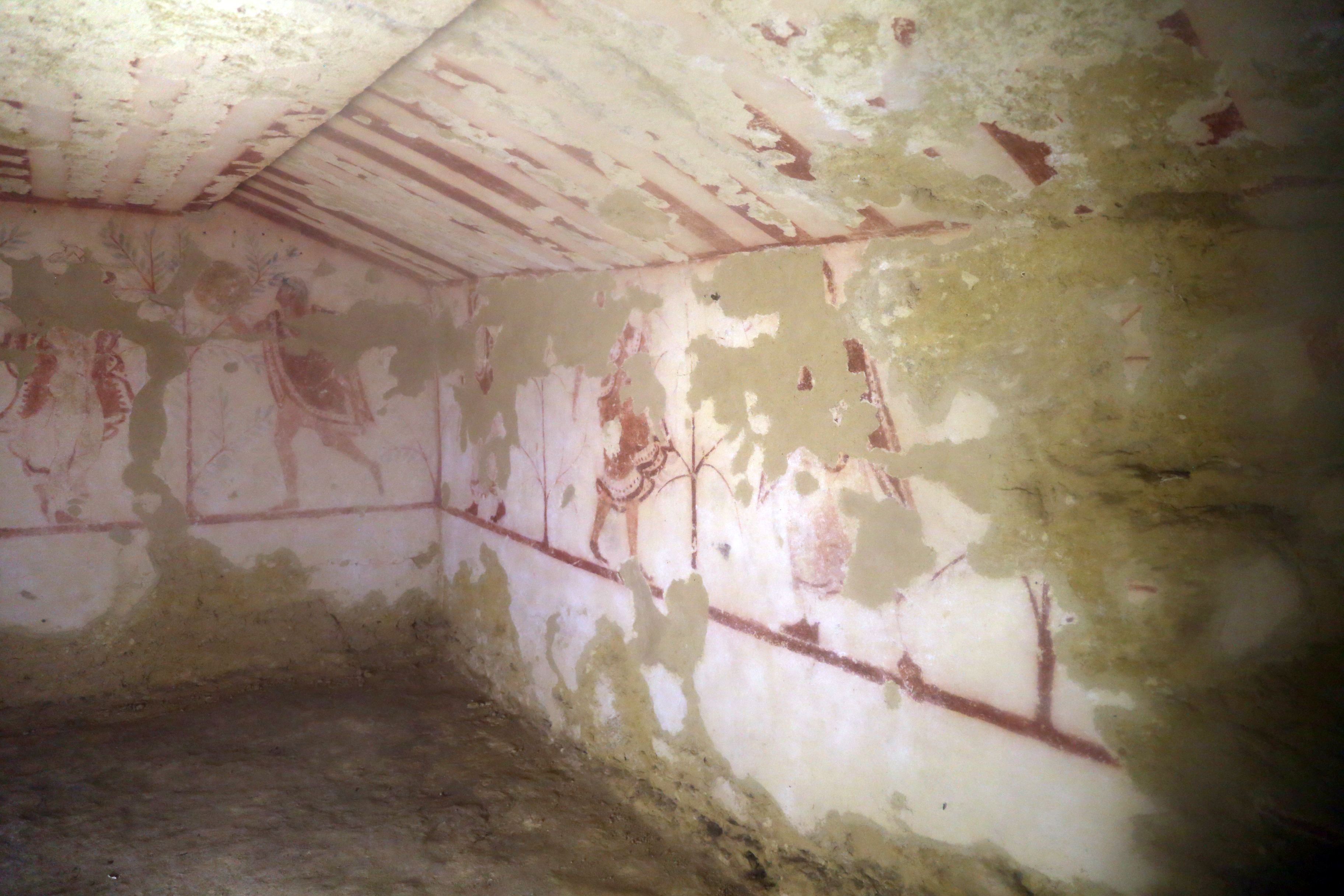 Necropoli dei Monterozzi (Tarquinia)